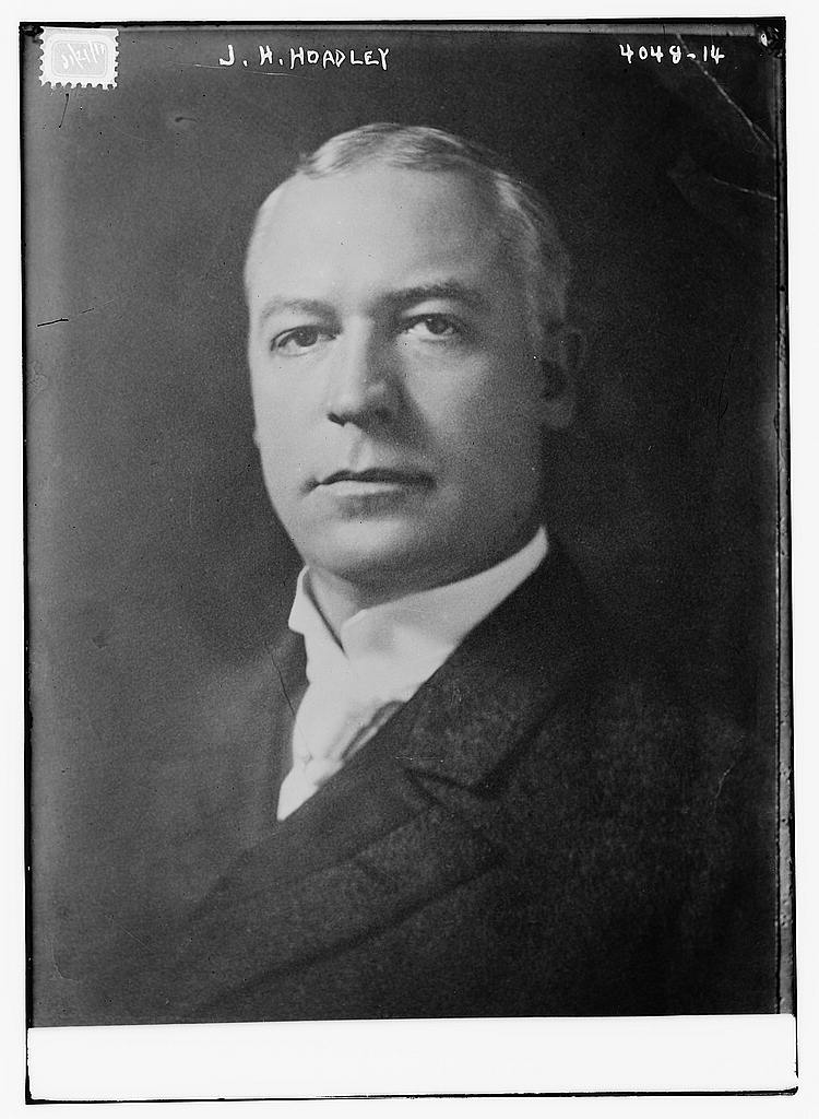 Joseph H. Hoadley (1864) in 1905